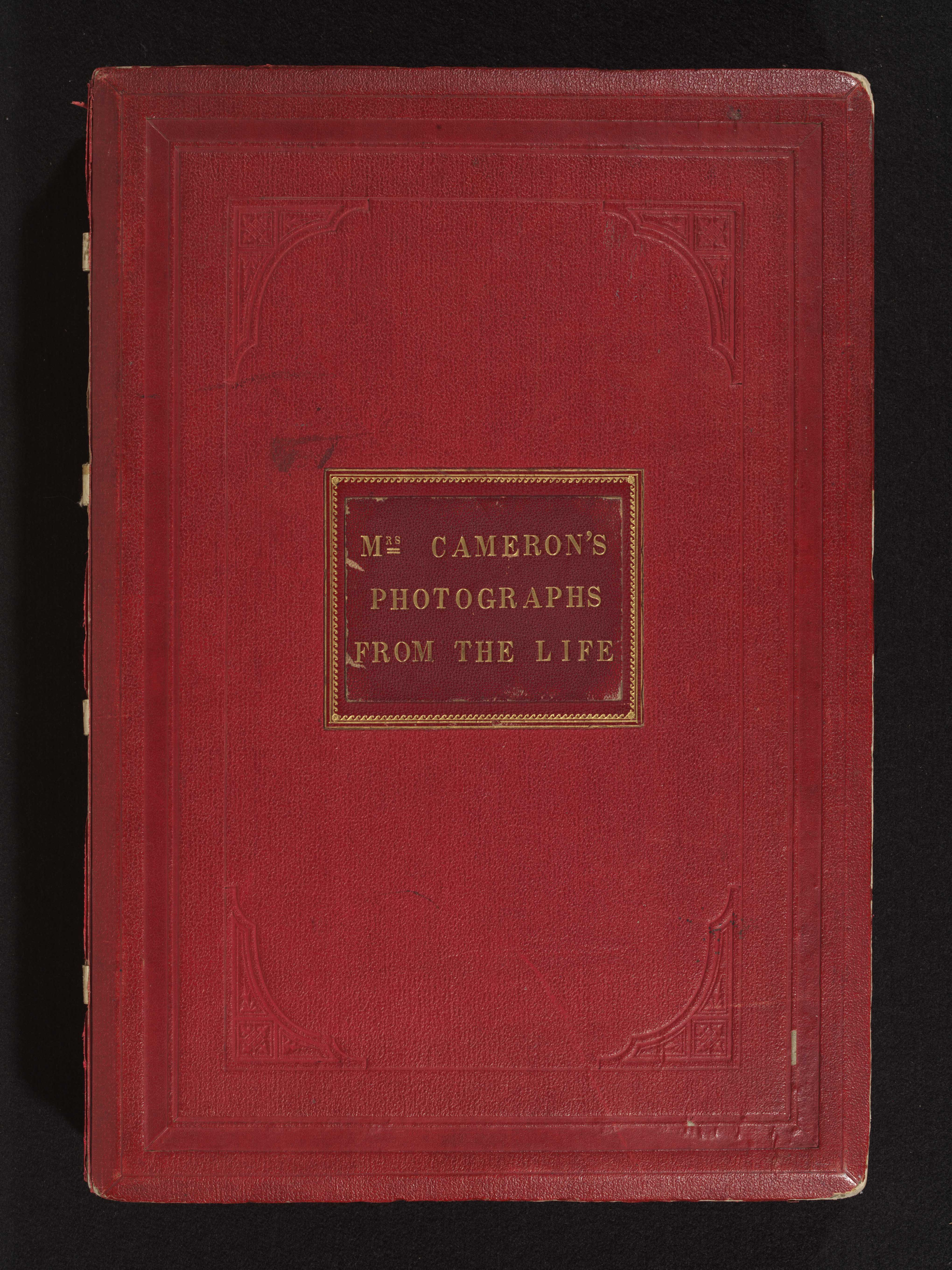 cover of The Norman Album (also known as Images from he Life) by Julia Margaret Cameron. Compiled between 1864 and 1869.